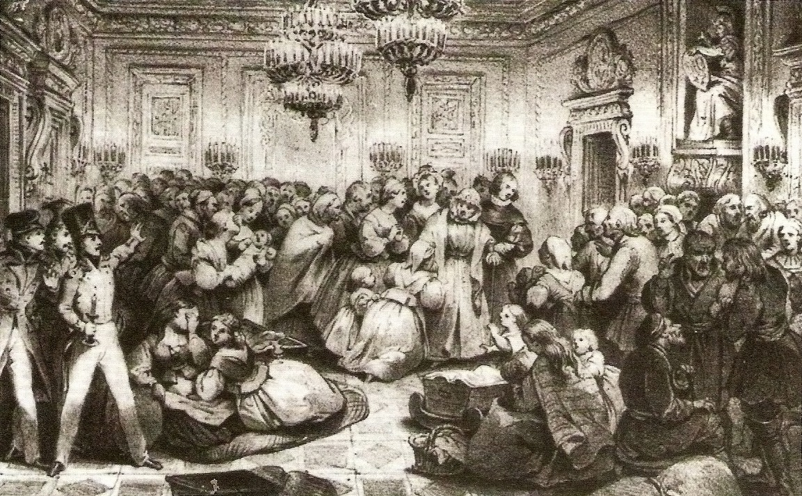 Polish Duchess Izabela Czartoryska leaves Puławy during the November Uprising in 1831, lithograph acc. to Thomas Napoleon